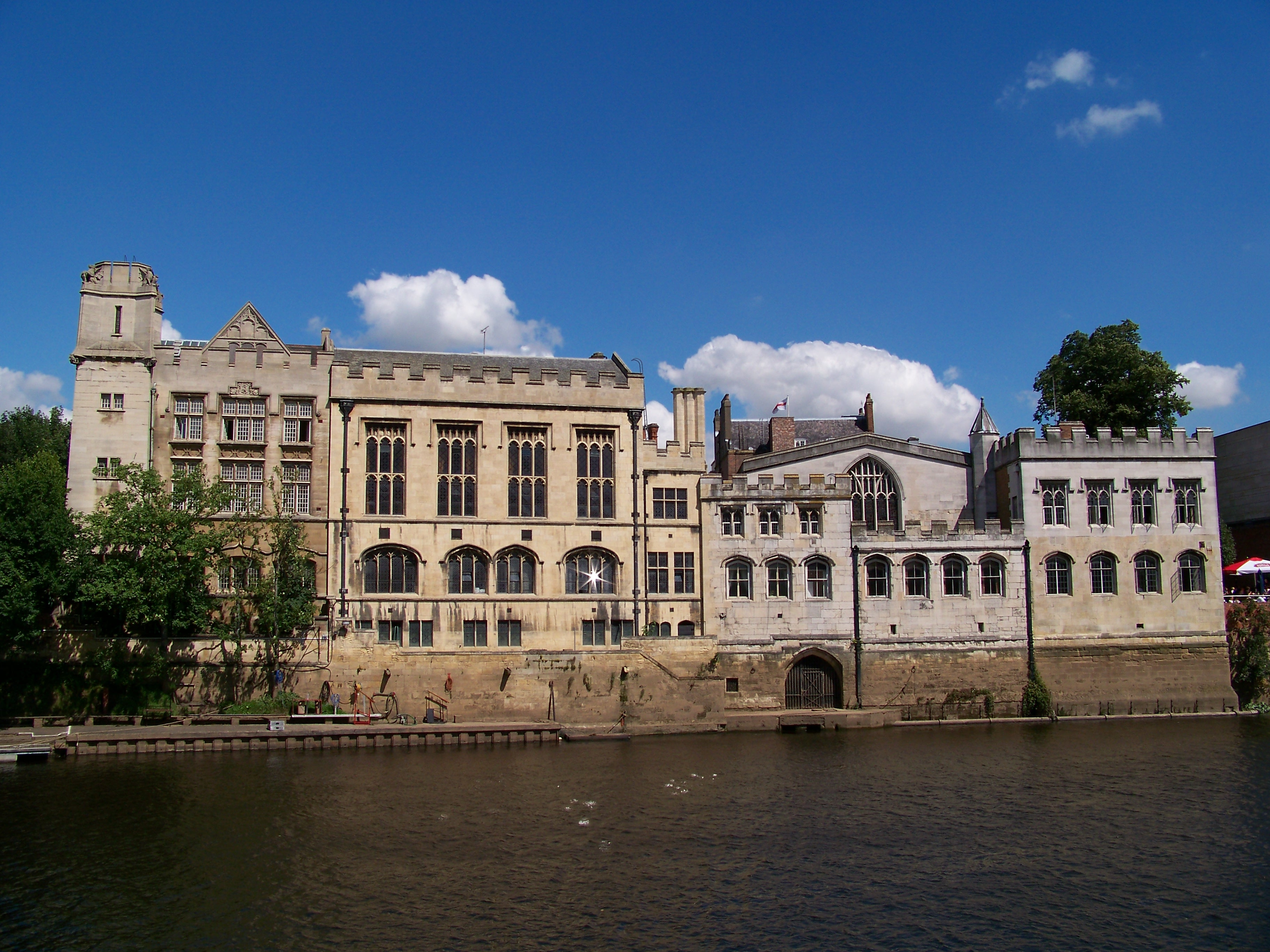 The Guildhall in York facing onto the River Ouse. The Guildhall is Grade I listed and the current architecture dates from the 15th century.